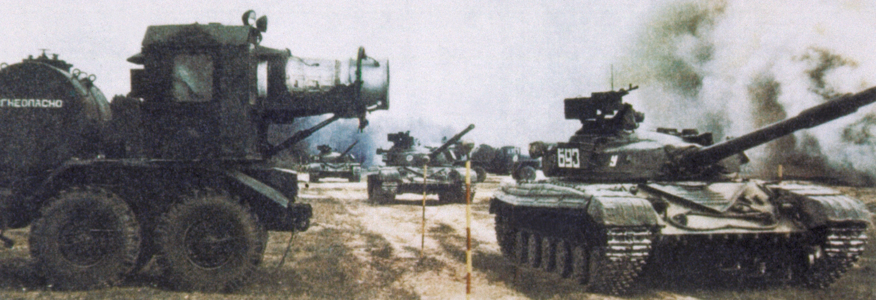 A Soviet TMS-65 decontamination vehicle uses a jet engine to despense decontaminant on a T-64 main battle tank.